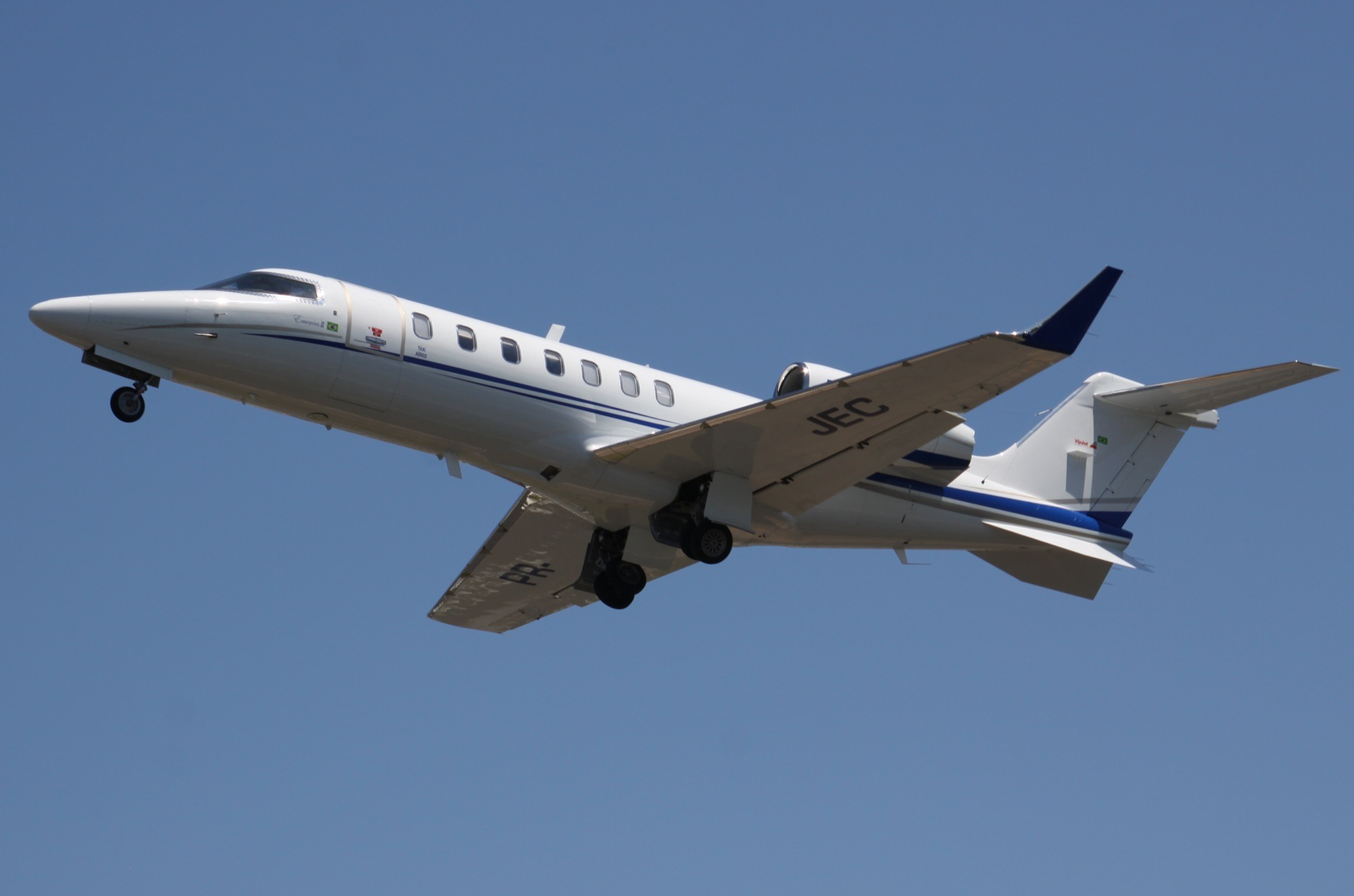 At Santos Dumont